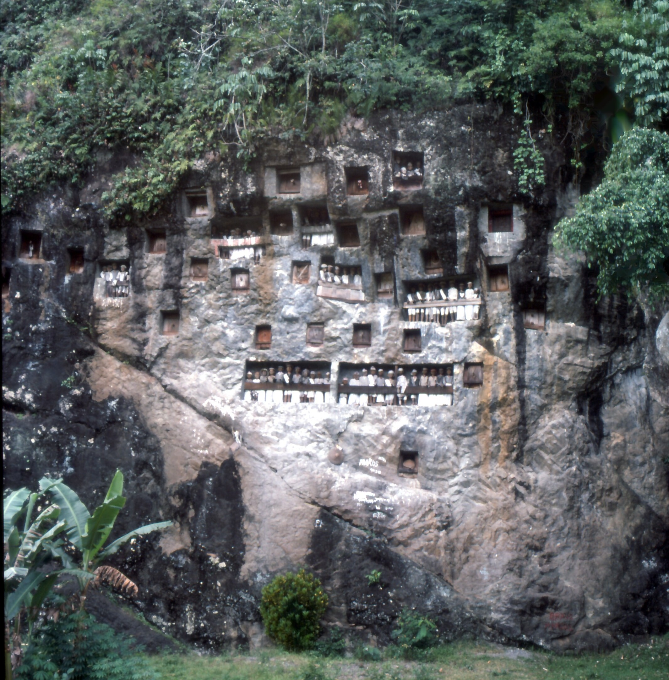 Lemo, Tana Toraja, South Sulawesi, Indonesia Tombes Toraja à flan de colline. Dominique Kirsner 1976 Olympus OM2